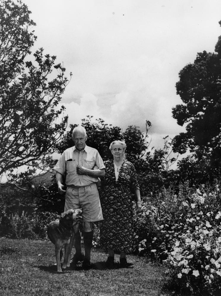 Inigo and Marion Jones in their garden at Crohamhurst, ca 1935 Inigo Jones, long-range weather forecaster, was born at Croydon, Surrey, England, on 1 December 1872, the son of Owen Jones, a civil engineer and a descendant of Inigo Jones, the noted English architect. Jones' parents migrated to Australia in 1874 and settled forty miles north of Brisbane. Inigo was educated at Brisbane Grammar School. Clement Wragge, the Queensland Government Meteorologist, was so impressed by the boy's interest and ability that he recruited him as an observer. A few years later the family acquired a farm and settled at Beerwah naming their property 'Crohamhurst' after Lord Goschen's Surrey estate. Here Jones set up his meteorological station, which he maintained for almost sixty-six years. In 1923 Jones began issuing long-range weather forecasts for which he was to become famous.